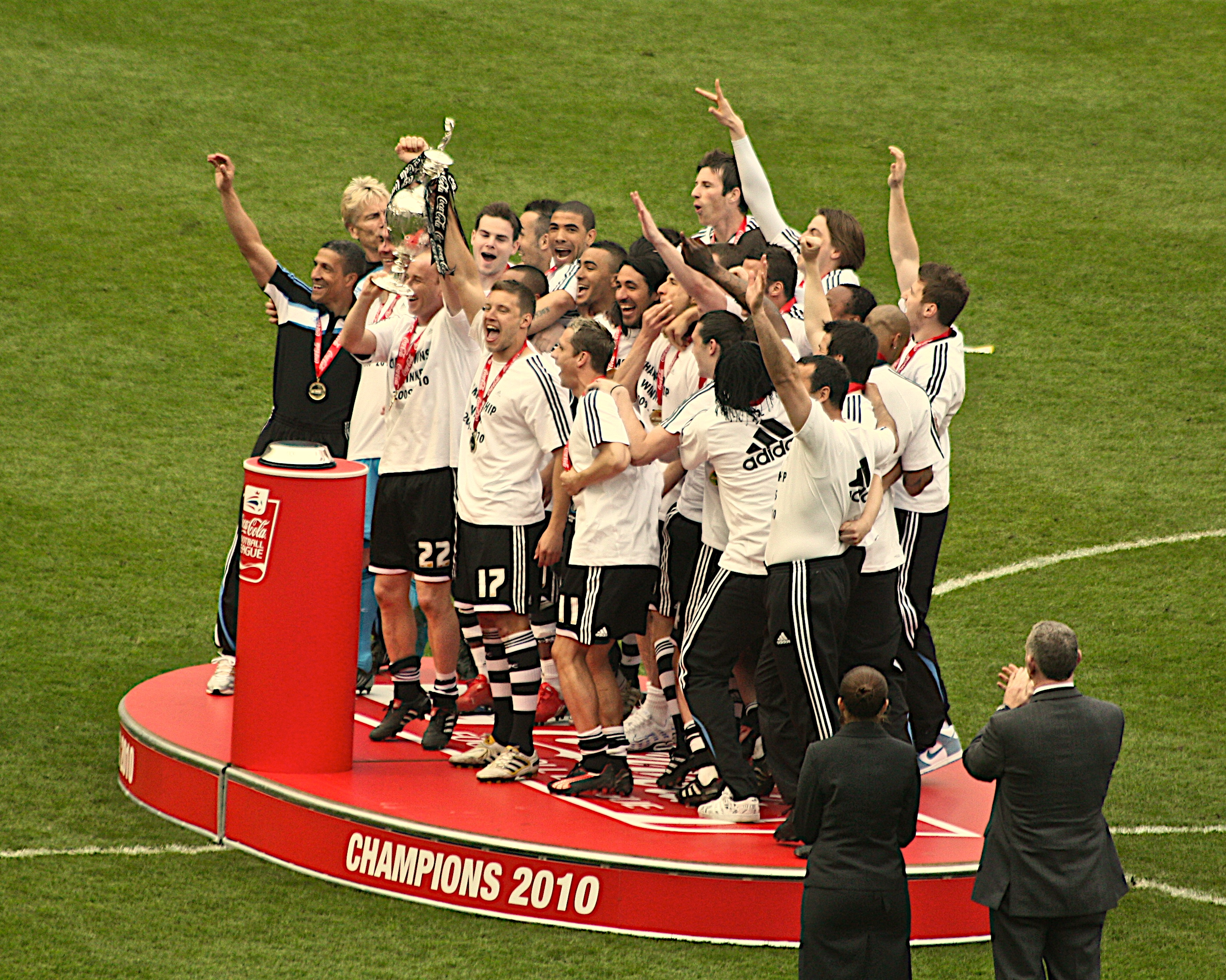 Championship Winners 2010